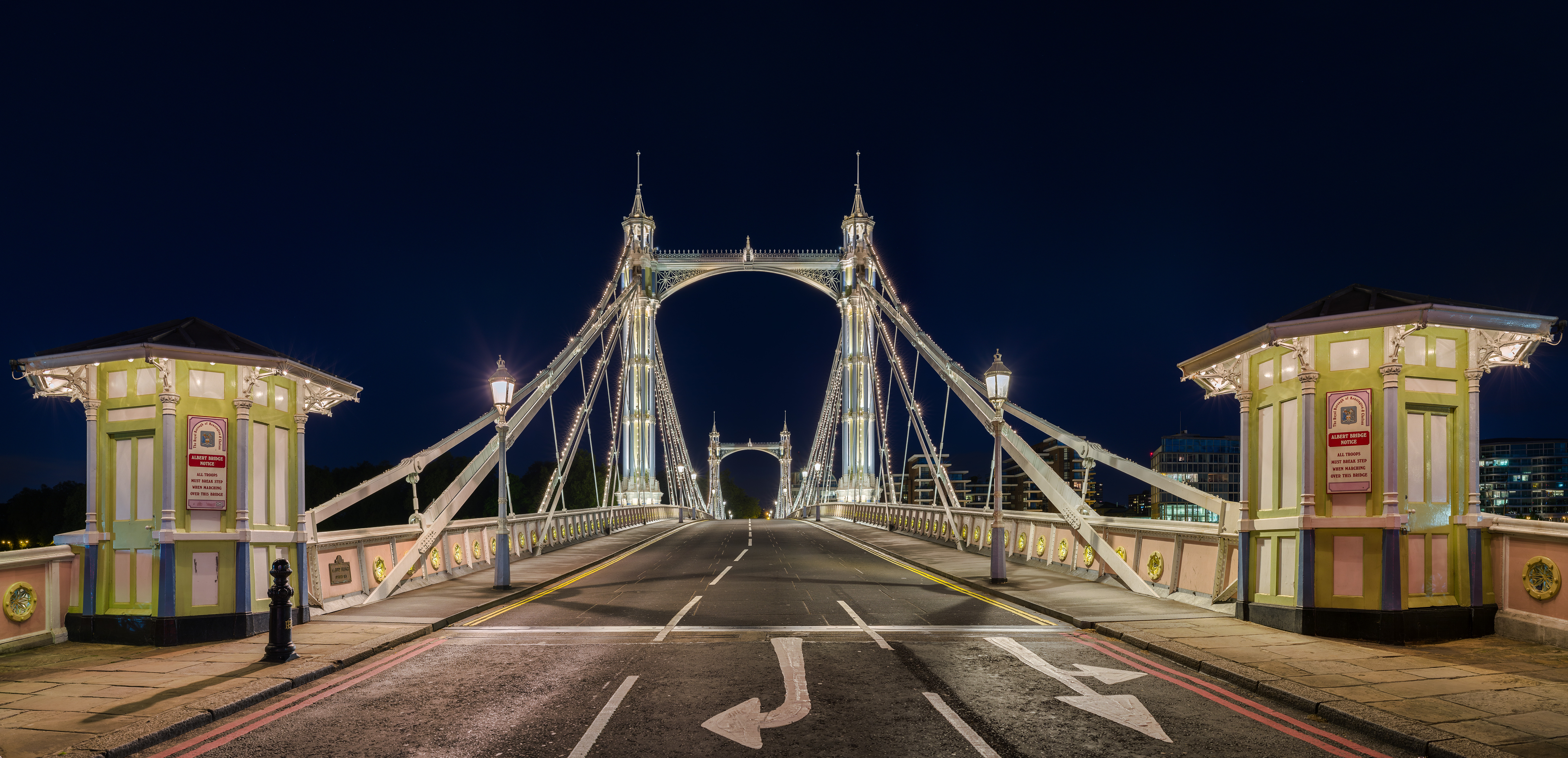 Albert Bridge as viewed from the north side looking south in London, England.